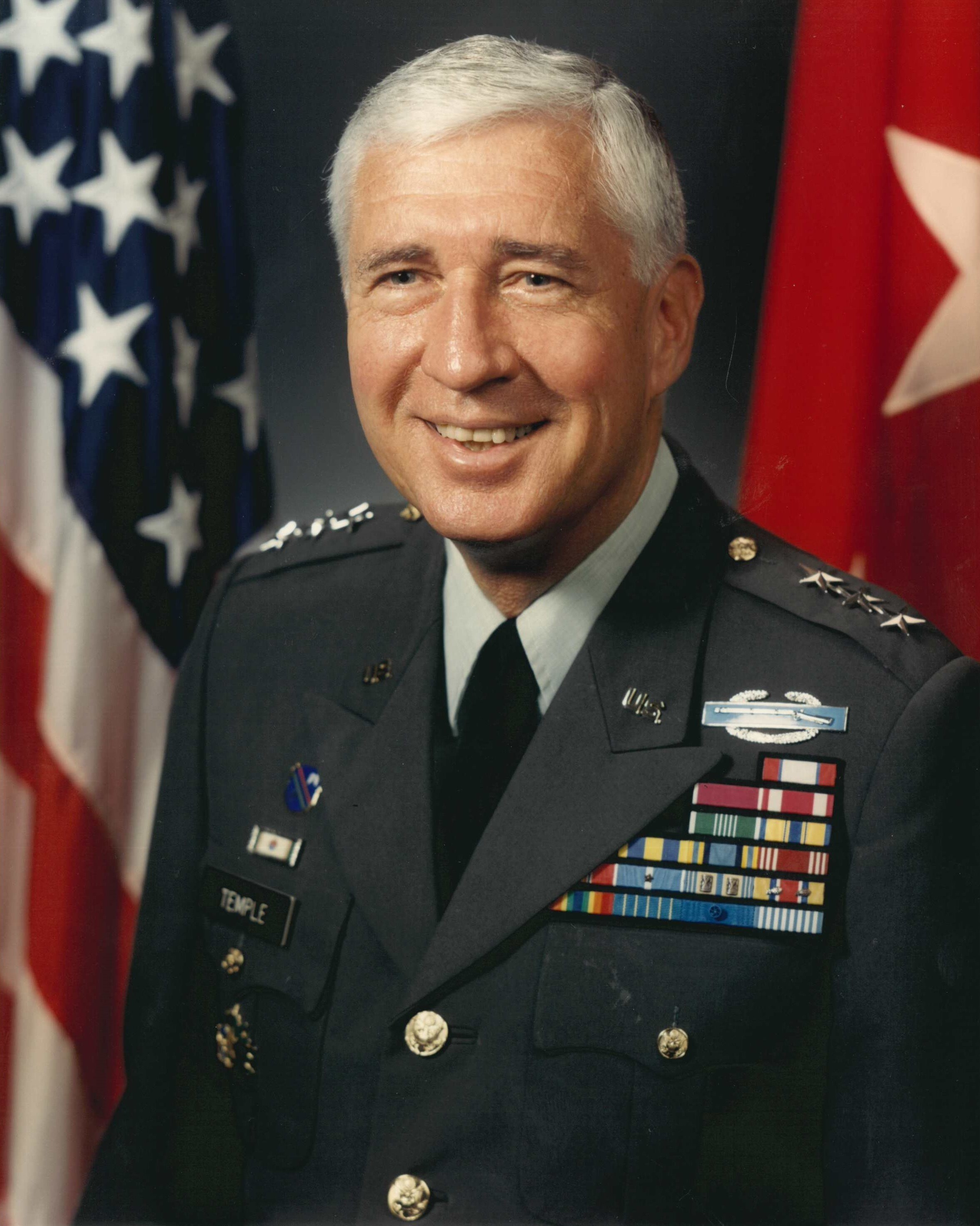 Lieutenant General Herbert R. Temple, Jr., Chief of the National Guard Bureau